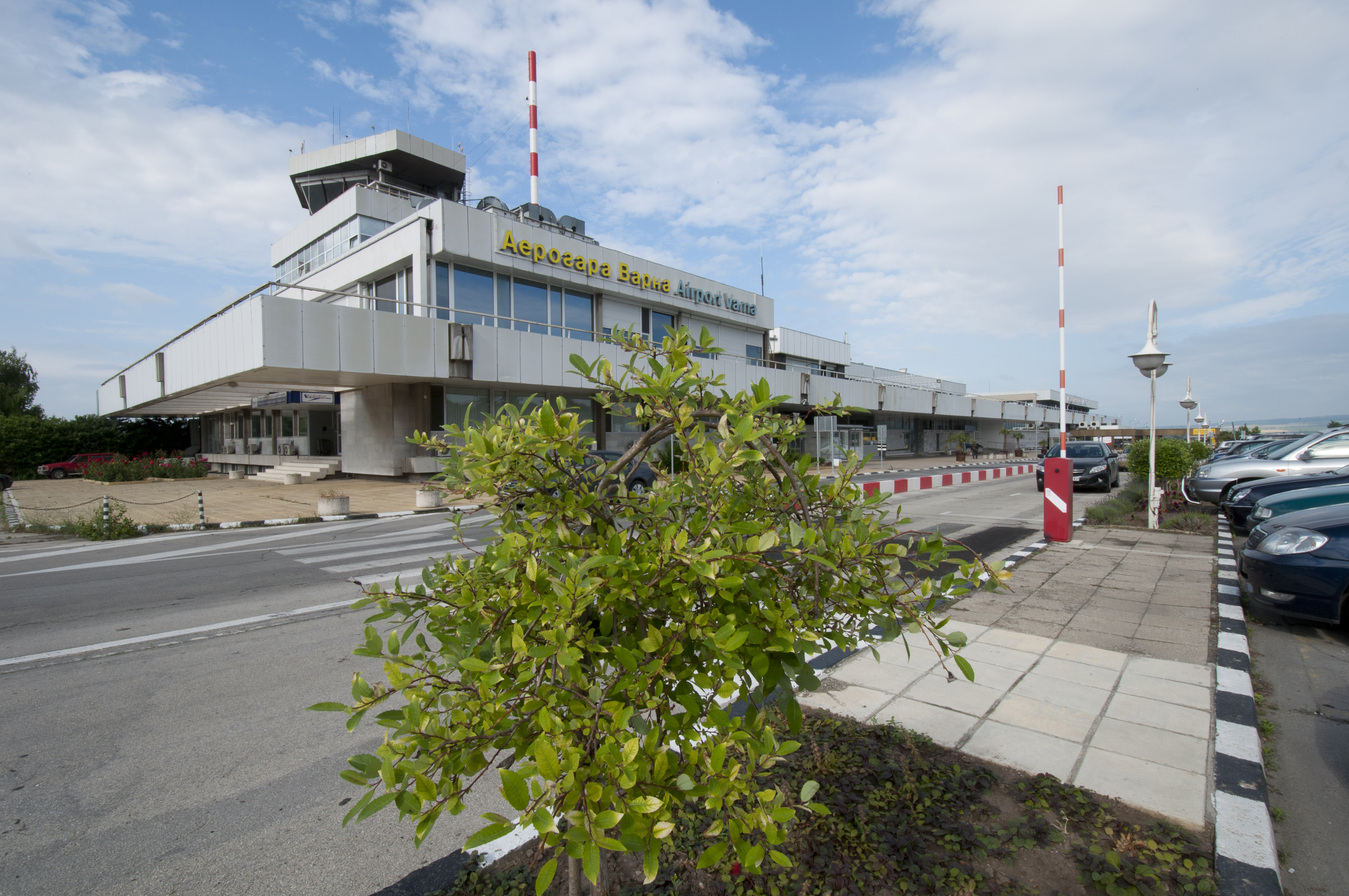 Varna Airport Terminal 1